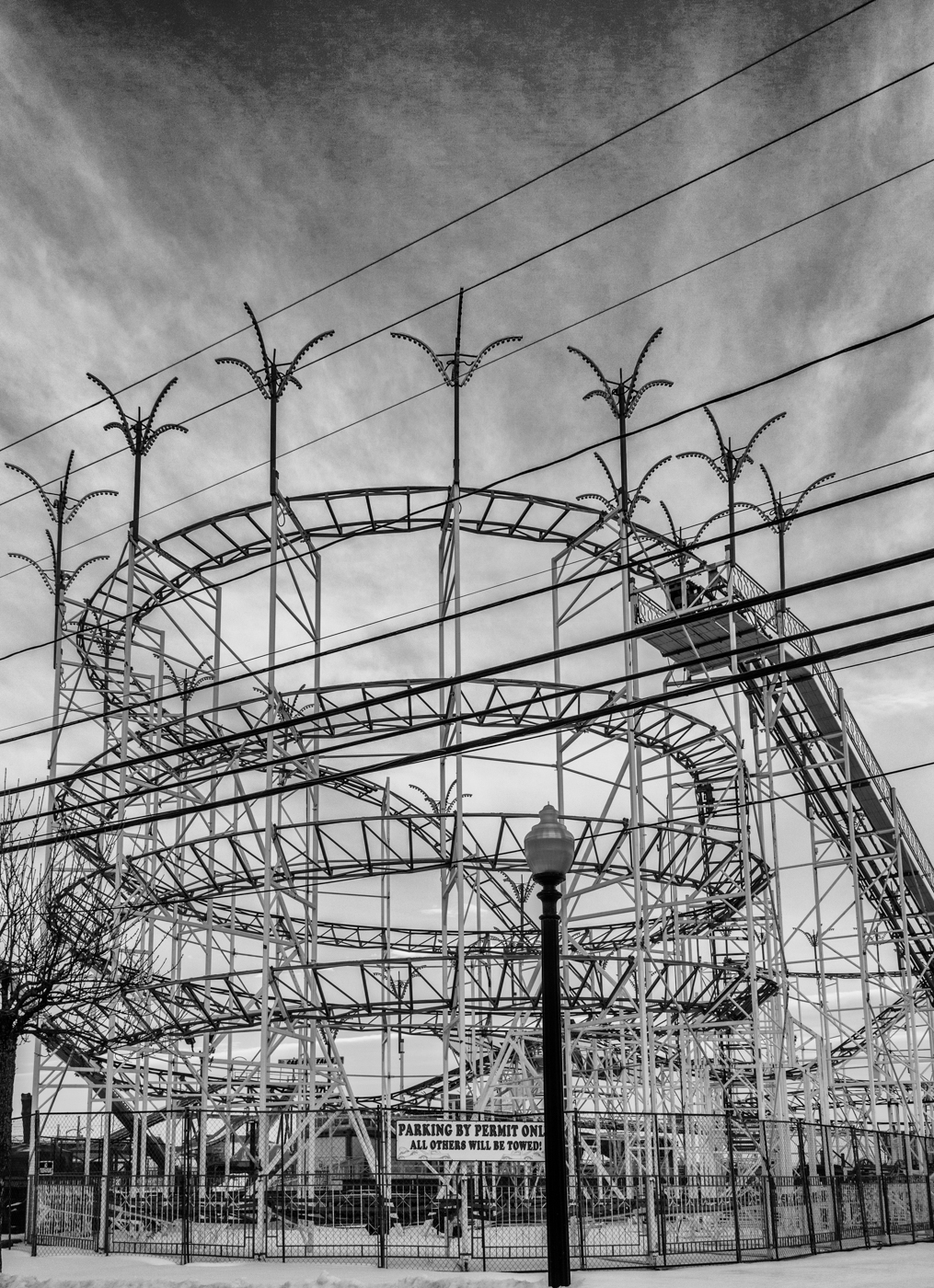 This small roller coaster is at the Palace Playland amusement park in Old Orchard Beach, Maine. Converted with Silver Efex Pro to BW.